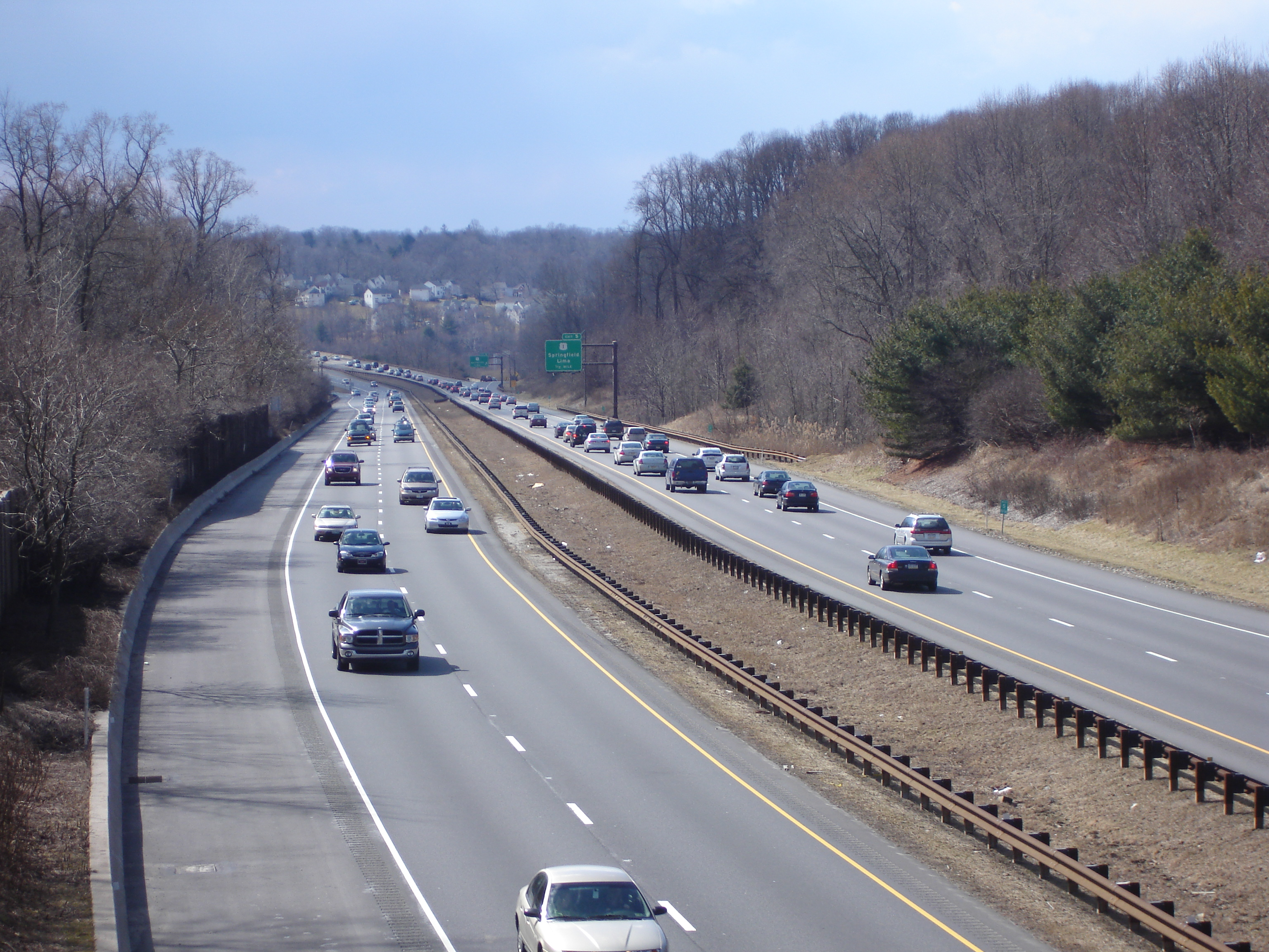 I-476 just north of the US 1 interchange, from the PA 320 overpass